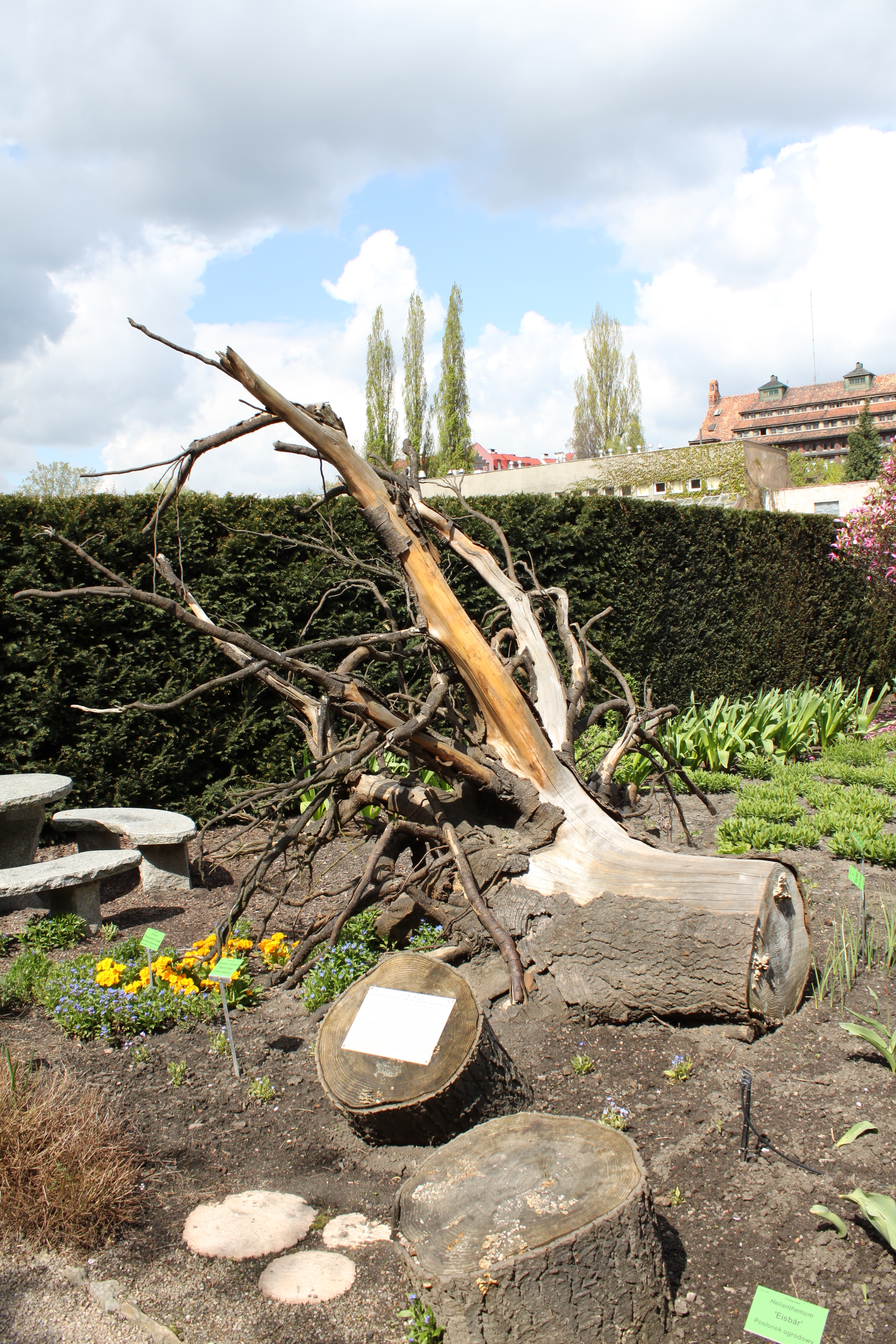 Abies concolor subsp. lowiana roots in Botanical Garden in Wrocław. This tree was overthrown by hurricane Kyrill that hit Poland at night on 18th January 2007. The speed of the wind was about 130 km/h. The age of this tree is ca. 65-70 years